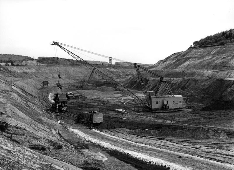 Open pit mining with draglines, Haverlahwiese iron ore mine, Salzgitter, Lower Saxony, Germany